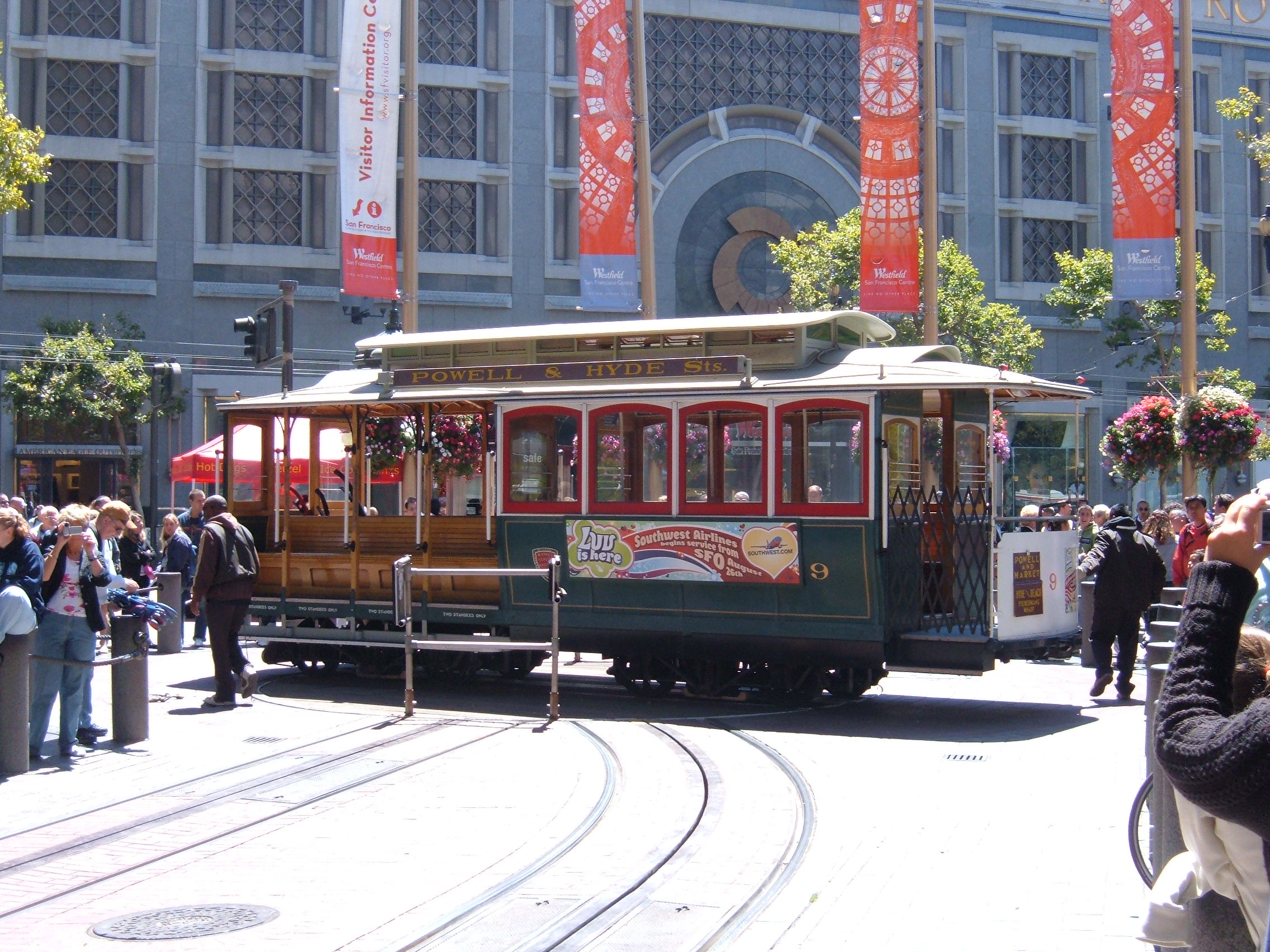 San Francisco cable car no. 9 being turned around at Powell and Market Streets.